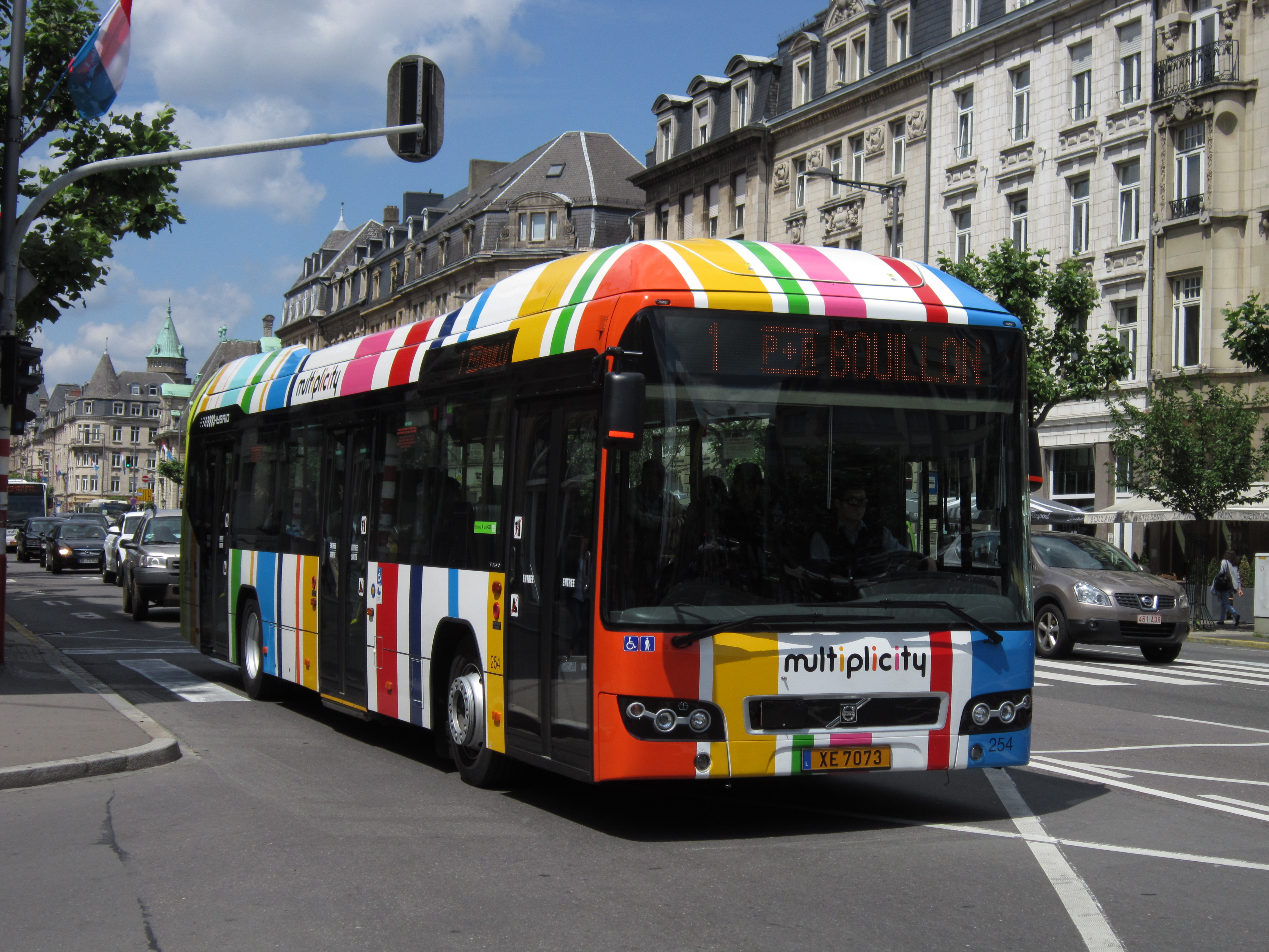 A Volvo 7700 Hybrid in Luxembourg City.